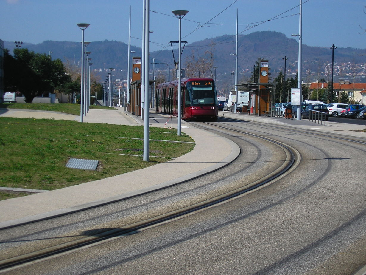 The tram of Clermont-Ferrand in the campus of Cezeaux.